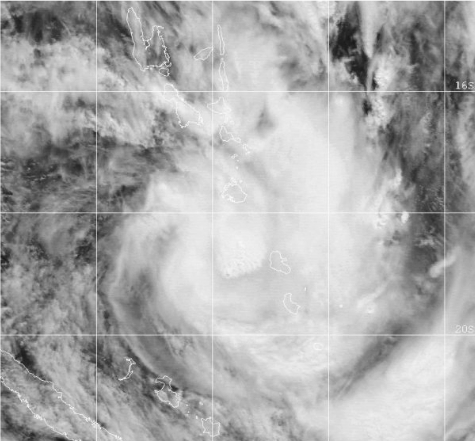 Satellite image of Cyclone Sose (2001) at 2331 UTC on April 7, 2001, while the storm was near peak intensity; New Caledonia can be seen on the bottom-left, with the islands of Vanuatu on the upper-right.